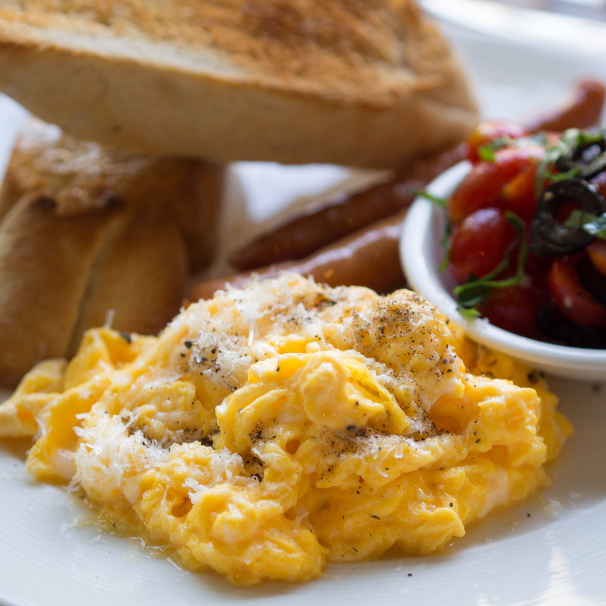 Scrambled eggs with grated cheese, a tomato salad and toasted baguette.